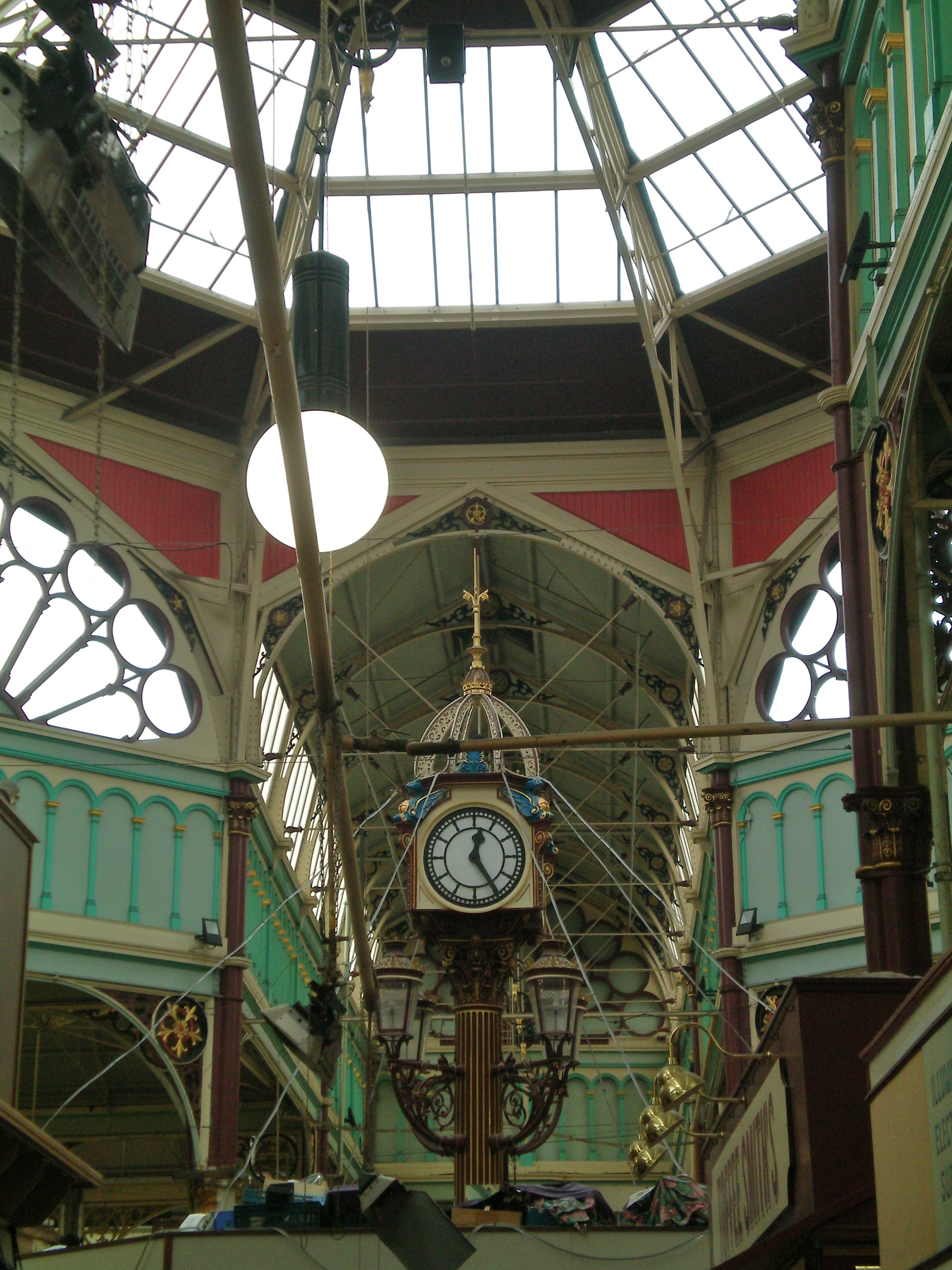 Borough Market, a Victorian covered market in Halifax, West Yorkshire, England.